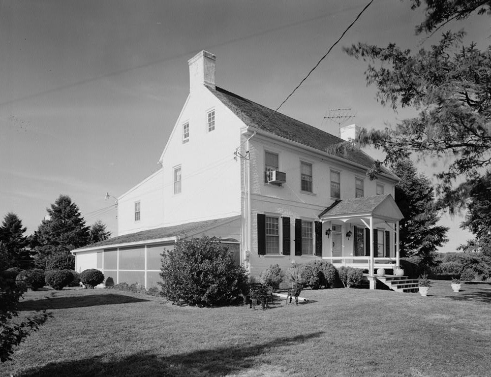 Wheel of Fortune (House), State Route 9, Leipsic vicinity (Kent County, Delaware) cropped This file comes from the Historic American Buildings Survey (HABS), Historic American Engineering Record (HAER) or Historic American Landscapes Survey (HALS). These are programs of the National Park Service established for the purpose of documenting historic places. Records consist of measured drawings, archival photographs, and written reports. When reusing please credit: Library of Congress, Prints & Photographs Division, DEL,1-LEIP.V,4-4 This tag does not indicate the copyright status of the attached work. A normal copyright tag is still required. See Commons:Licensing. This work is in the public domain in the United States because it is a work prepared by an officer or employee of the United States Government as part of that person’s official duties under the terms of Title 17, Chapter 1, Section 105 of the US Code. Note: This only applies to original works of the Federal Government and not to the work of any individual U.S. state, territory, commonwealth, county, municipality, or any other subdivision. This template also does not apply to postage stamp designs published by the United States Postal Service since 1978. (See § 313.6(C)(1) of Compendium of U.S. Copyright Office Practices). It also does not apply to certain US coins; see The US Mint Terms of Use. This file has been identified as being free of known restrictions under copyright law, including all related and neighboring rights.